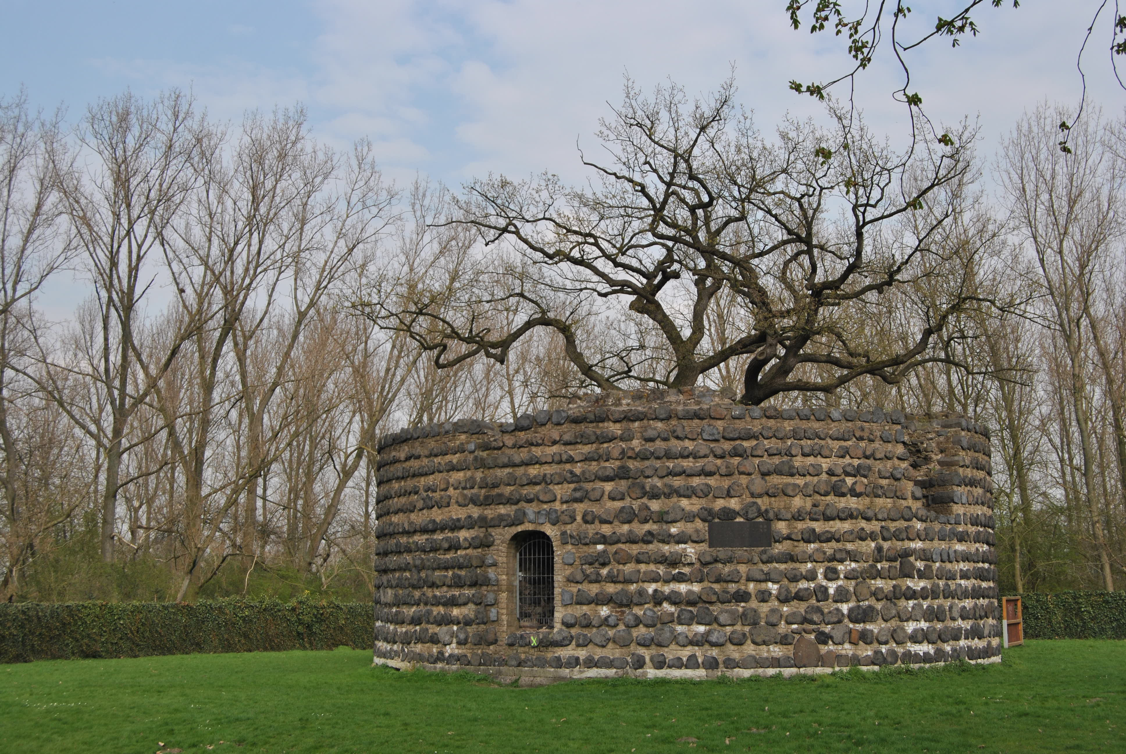 Rheinberg (North Rhine-Westphalia, Germany) – Zollturm This image shows a heritage building in Germany, located in the North Rhine-Westphalian city Rheinberg (no. 20). This photograph was taken with a Nikon D3000